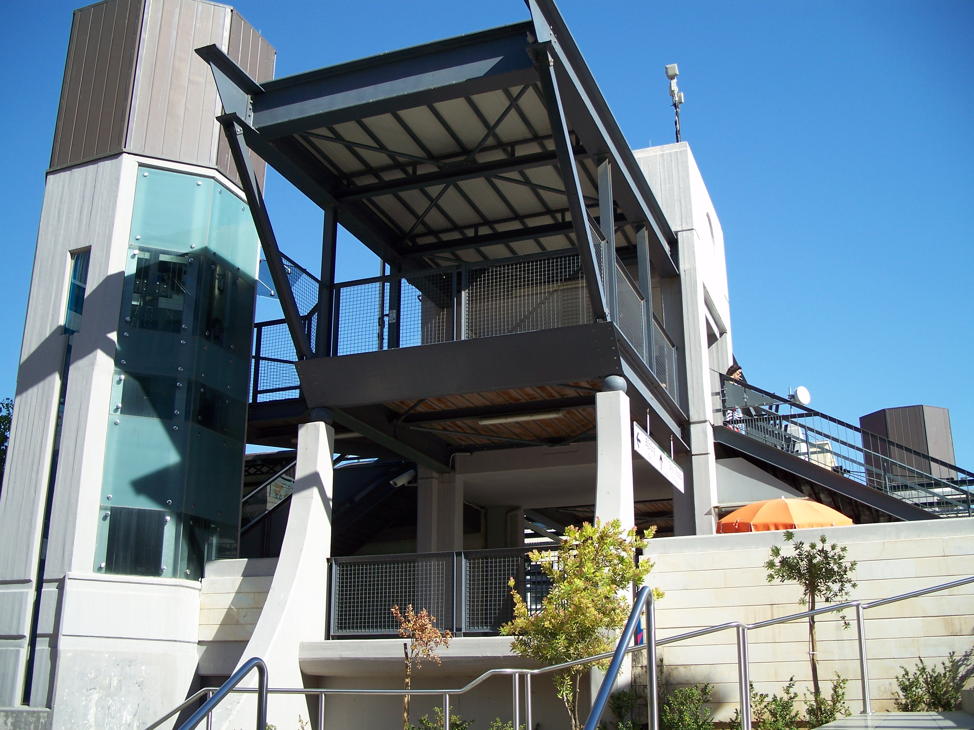 Kallithea station of Athens Metro system, view from entrance.